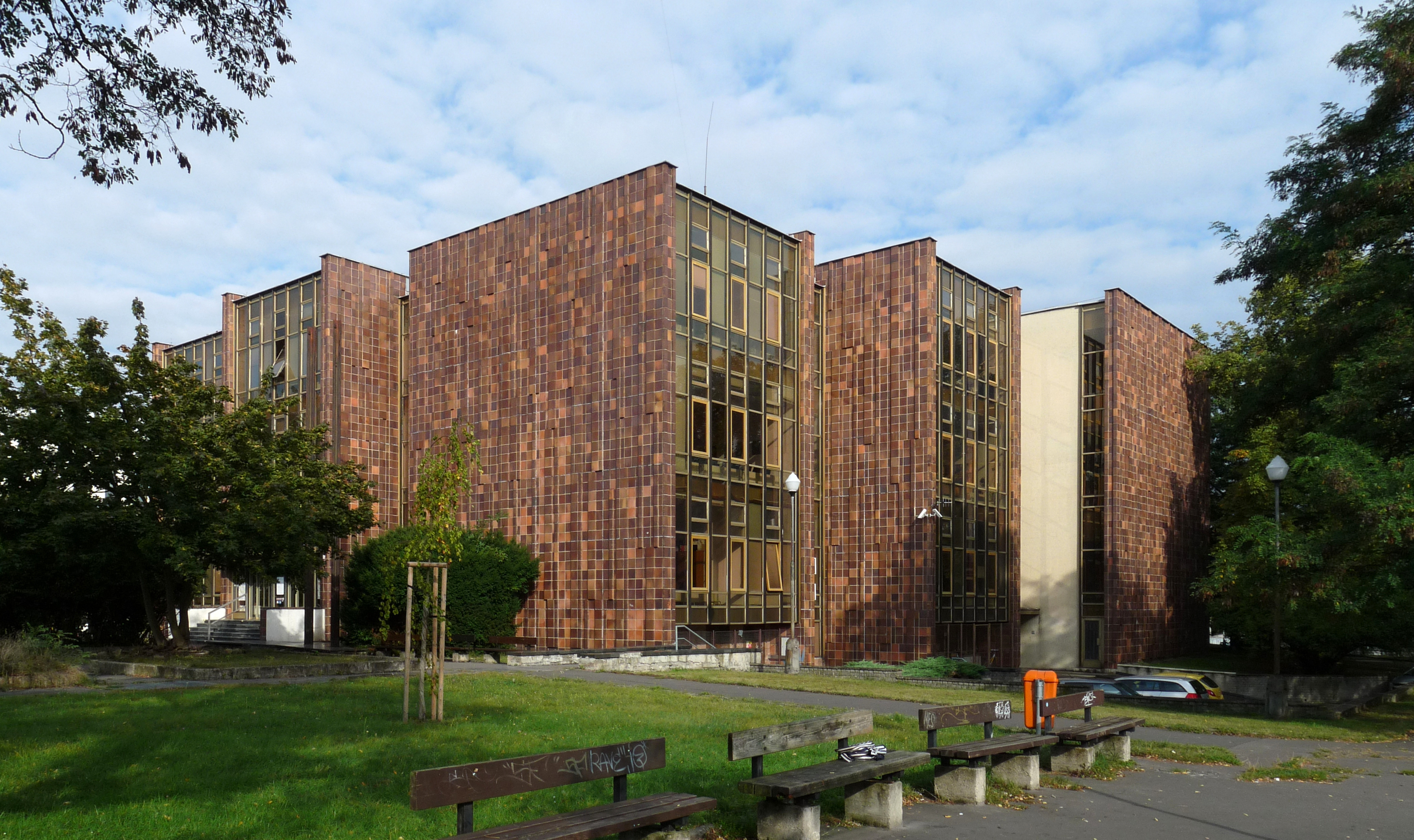 The Research Library of South Bohemia in the city of České Budějovice, South Bohemian Region, Czech Republic - its main building in Lidická Street.